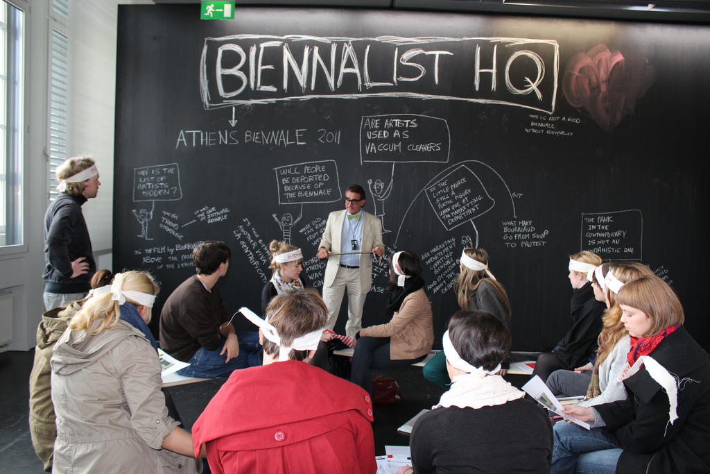 Colonel teaching